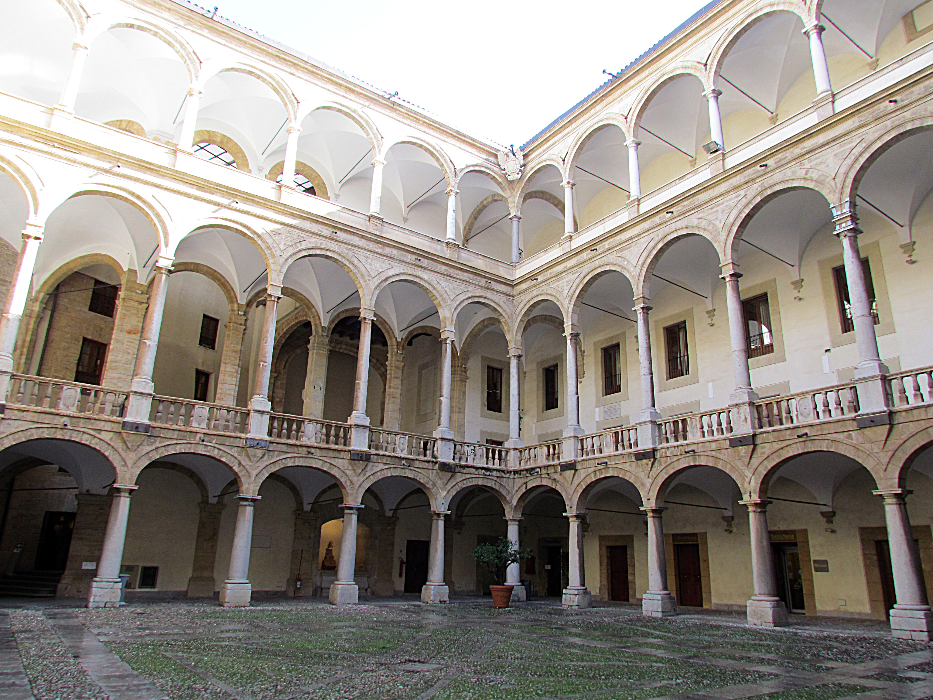 Palazzo dei normanni, Cortile Maqueda, Palermo (photo: Mihailo Grbic)